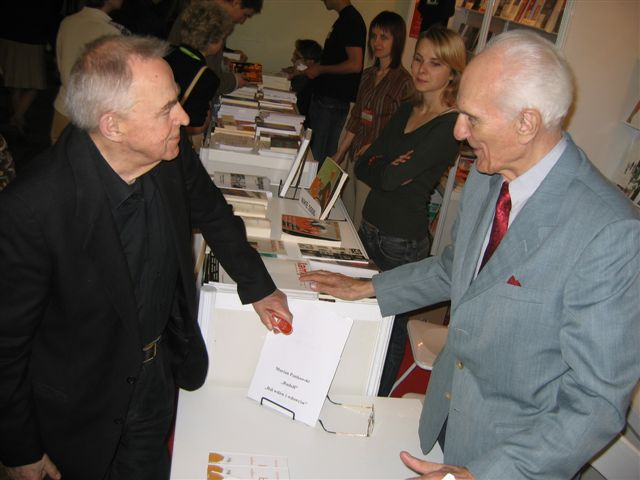 Henryk Bereza (1926-2012), Polish essayist and literary critic and Marian Pankowski (1919-2011), Polish writer